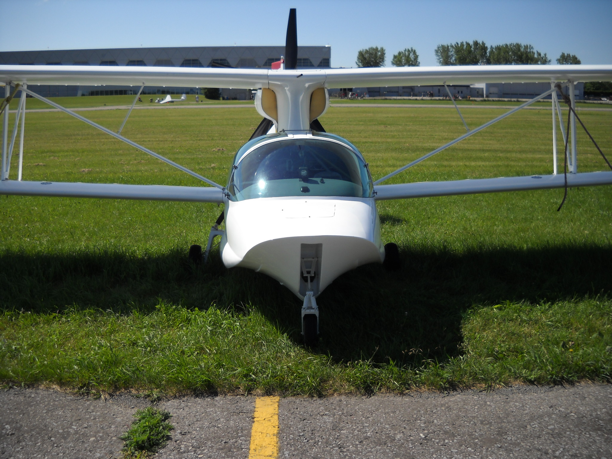 An AAC Seatstar at Rockcliffe Airport, Ottawa, Ontario, Canada. The aircraft was undergoing maintenance and the tailplane was not installed.